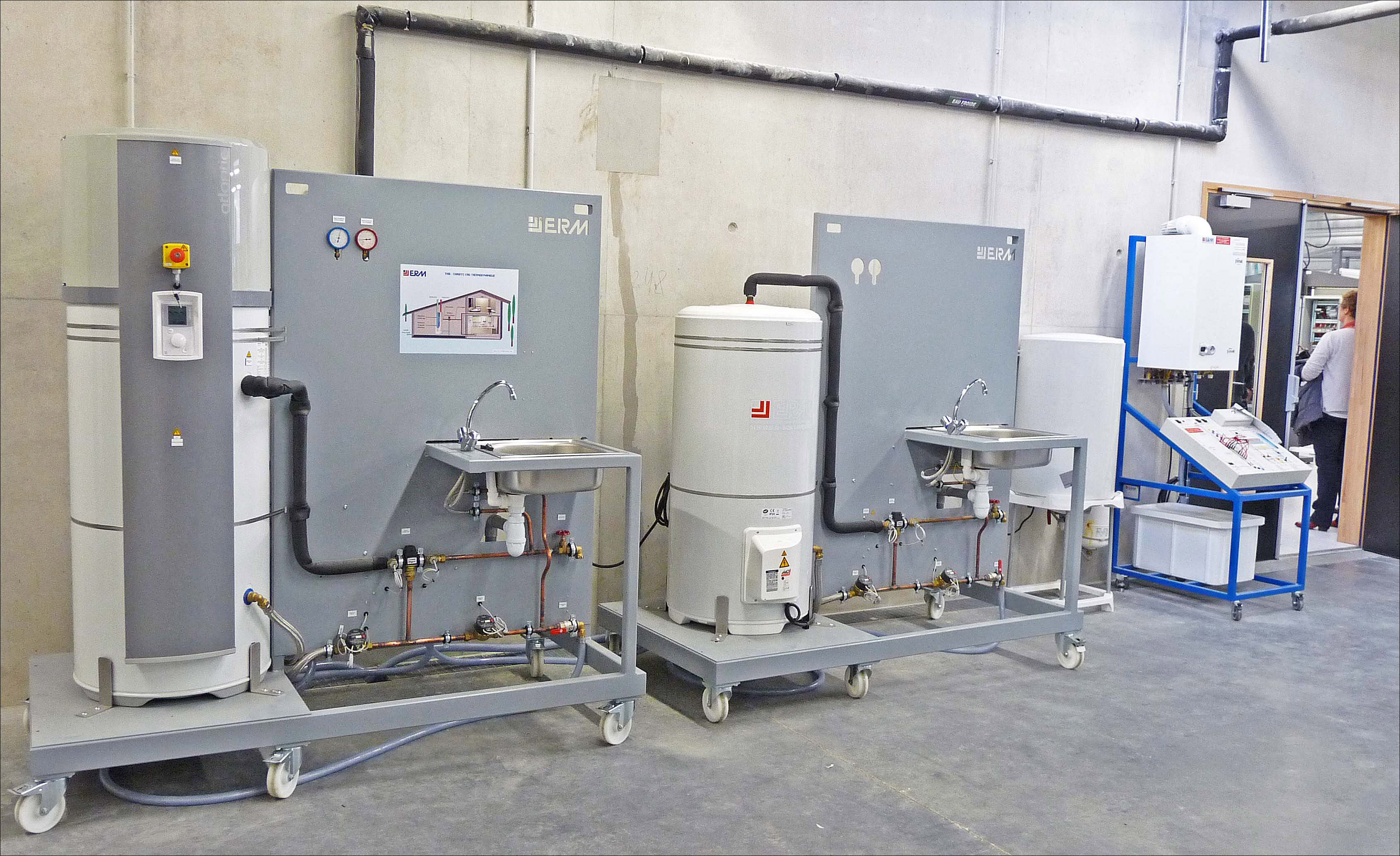 Equipment for courses in aprenticeship technical school.